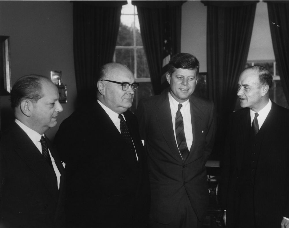 President John F. Kennedy meets with Paul-Henri Spaak, Belgian Minister of Foreign Affairs. (L-R) Baron Robert Rothschild, Chief of the Cabinet; Foreign Minister Spaak; President Kennedy; Belgian Ambassador to the United States Louis Scheyven. Oval Office, White House, Washington, D.C. Abbie Rowe. White House Photographs. John F. Kennedy Presidential Library and Museum, Boston